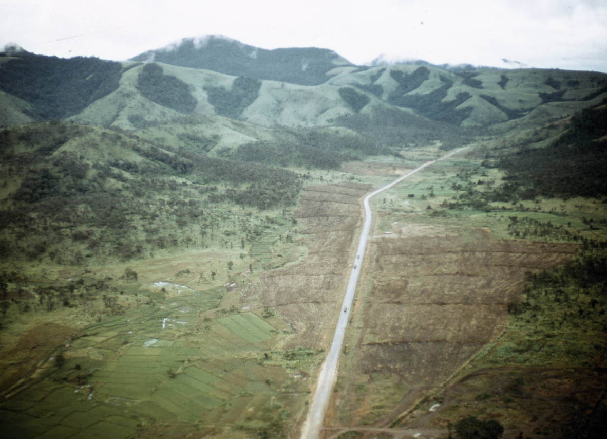 Elements of the 299th and 70th Engineer Battalions are clearing the jungle 100 meters on either side of Route 19 between An Khe and Pleiku. The 35th Land Clearing team is supporting the operation.